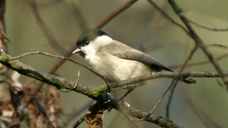 Marsh Tit (Poecile palustris)